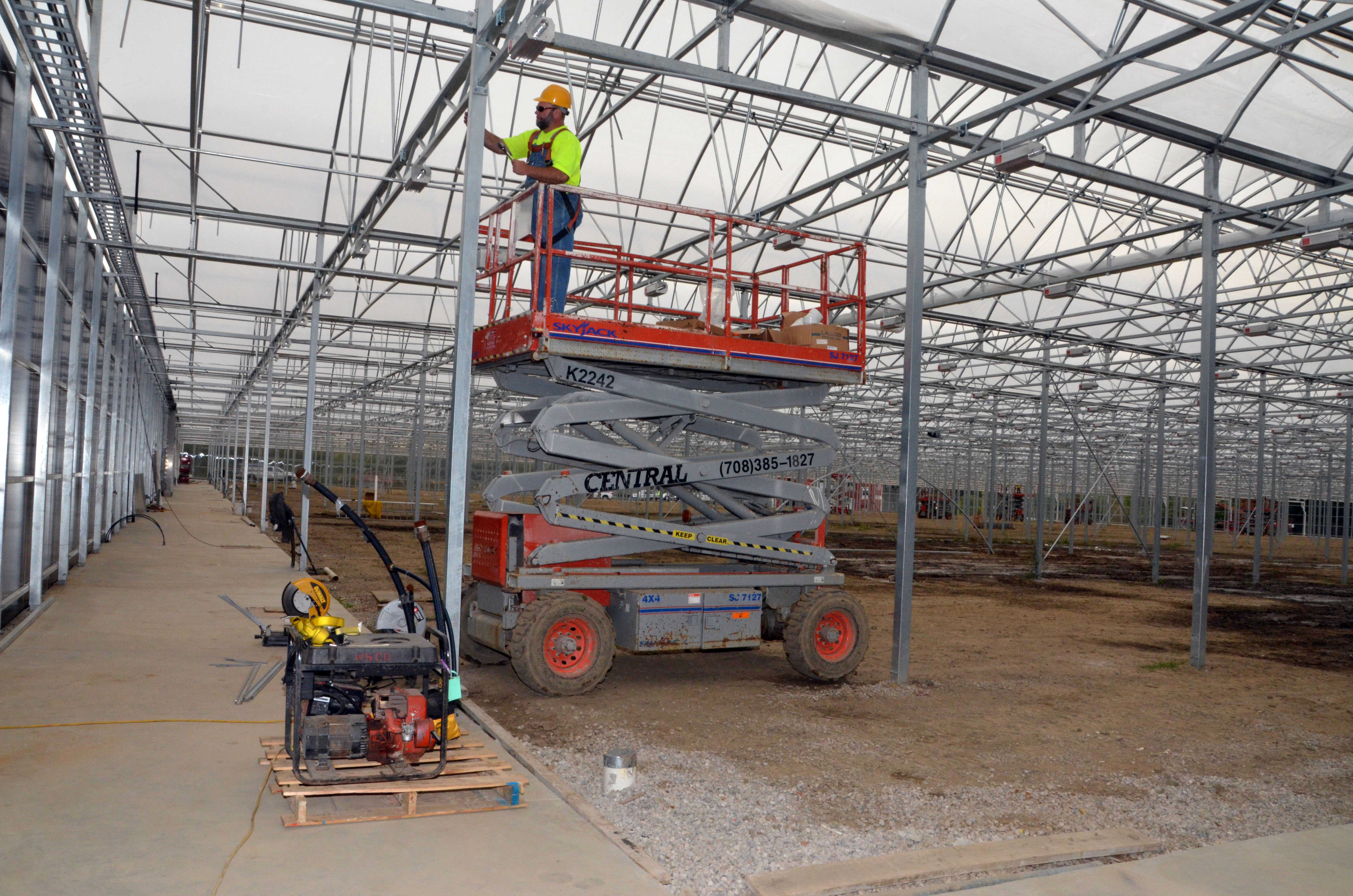 Construction of the Green City Growers Cooperative greenhouse in Cleveland, Ohio